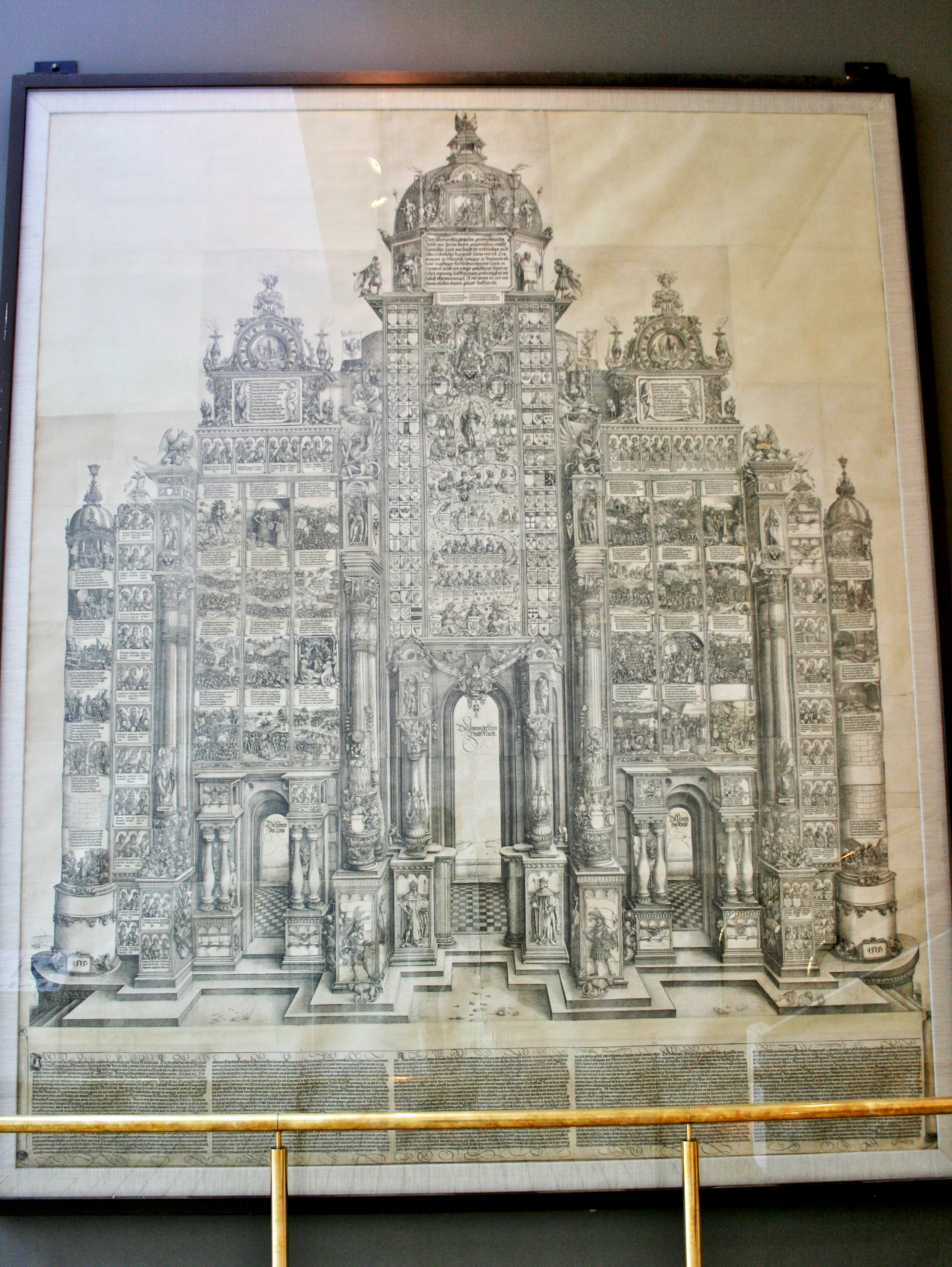 "Albrecht Durer (1471-1528) and others. The Triumphal Arch, 1515. Woodcut, printed from 192 blocks. ... one of the largest prints ever produced." In the British Museum.